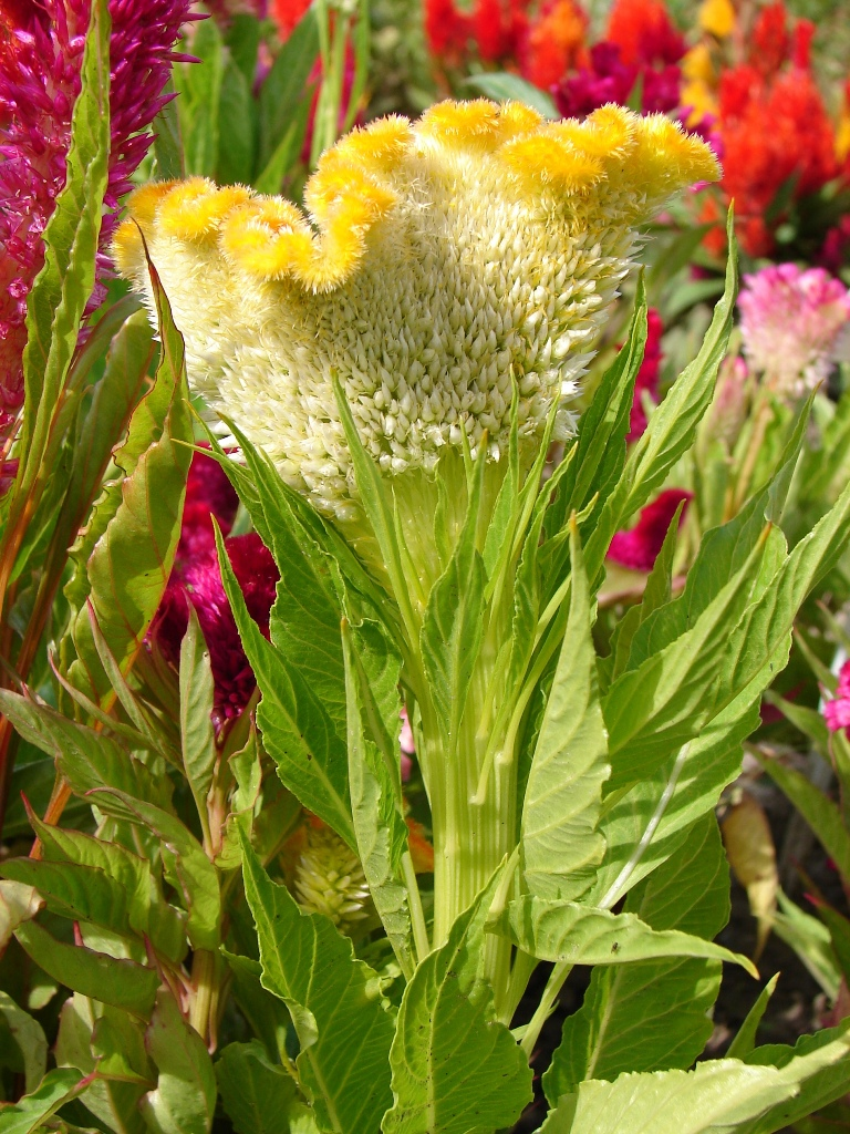 A view of Celosia argentea plant (family: Amaranthaceae) in "plumosa nana" form, took in Collection of Annual Plants, Department of Ornamental Plants, Warsaw Agricultural University